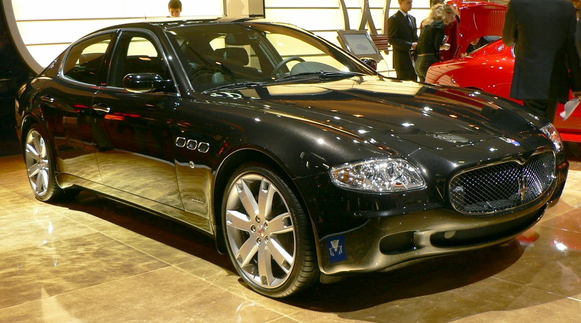 Maserati Quattroporte at the 2006 Paris Motor Show